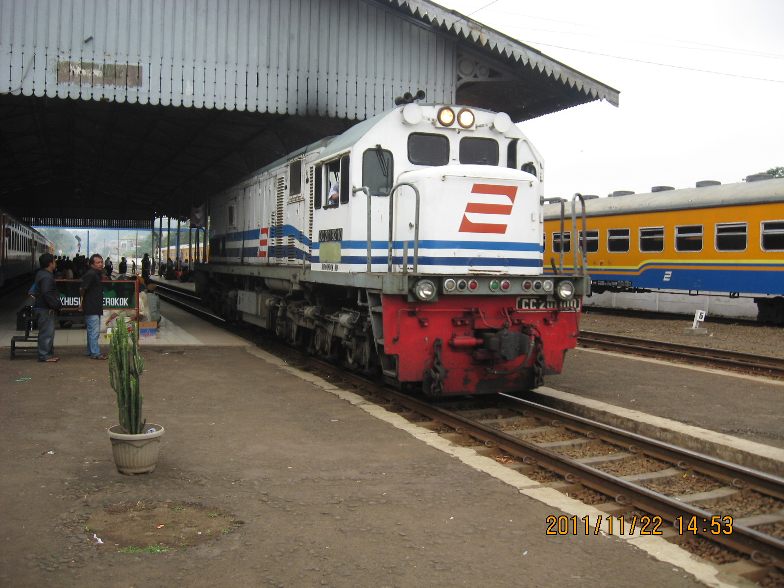 CC 201 100 with a round-shape windshield like other CC 201s from the third generation.